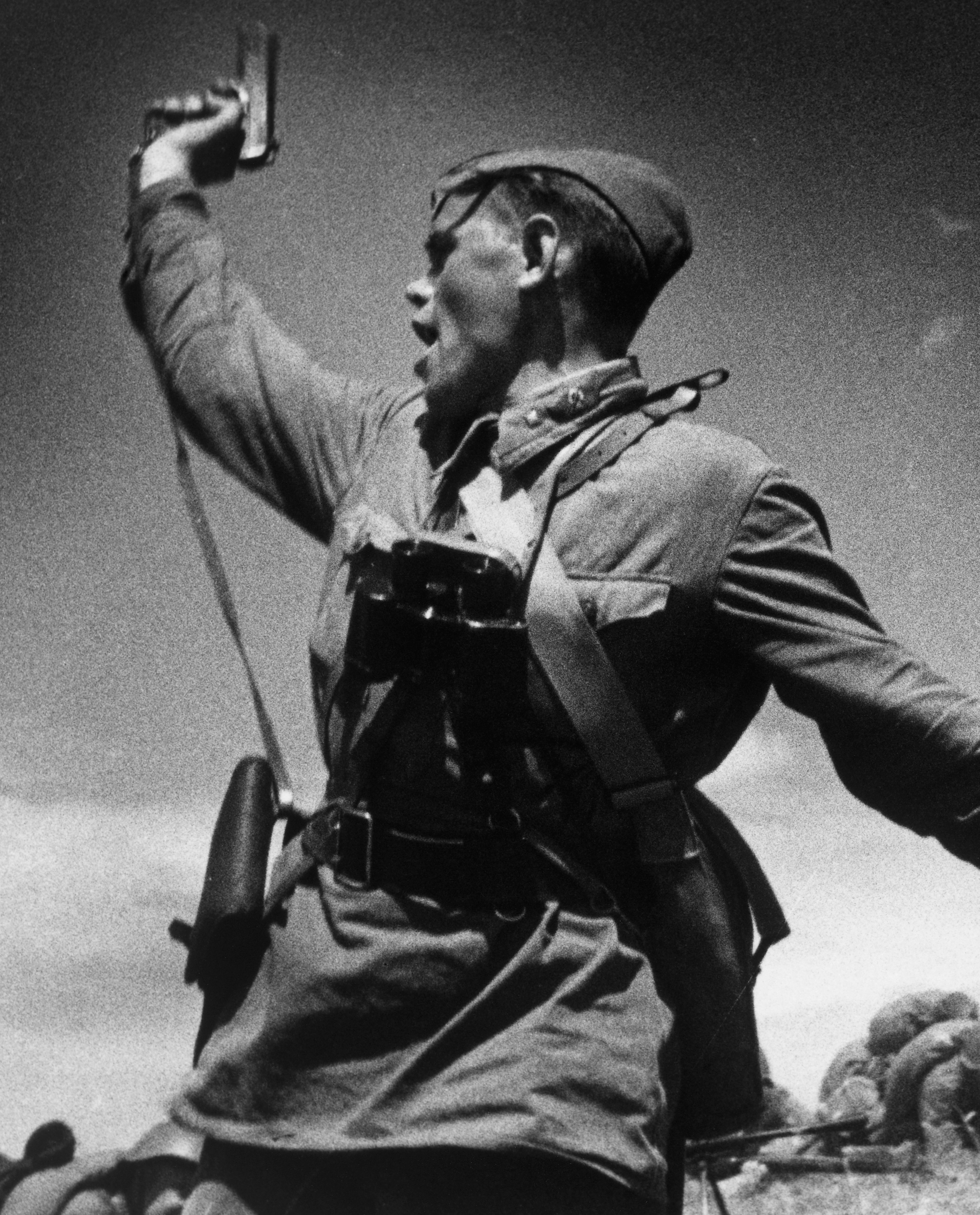 A Soviet lieutenant (probably A. G. Yeremenko, Company political officer of the 220th Rifle Regiment, 4th Rifle Division, killed in action in 1942), armed with a Tokarev TT-33 pistol, urges his men to attack German positions during WWII. Photo was taken by Max Alpert during the battle July 12, 1942, Voroshilovgrad region (see Комбат (фотография)).